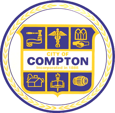 Official seal of the city of Compton, California